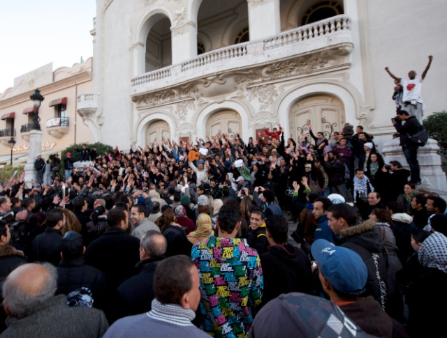 Jubilant demonstrators on steps of Municipal Theatre, Avenue Bourguiba, Central Tunis